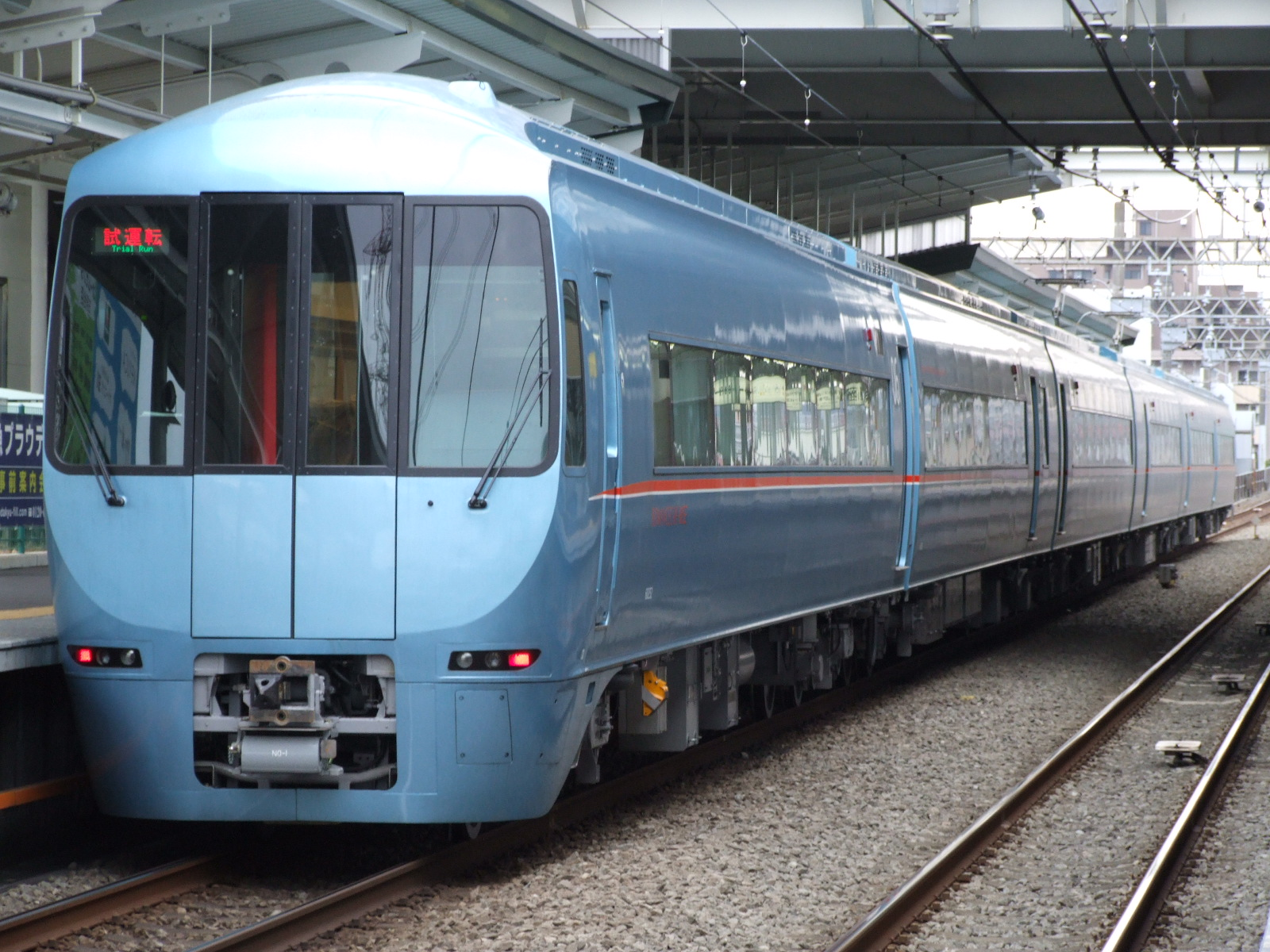 Model 60000 -Odakyu RomanceCar MSE-,Odakyu Electric Railway,Japan